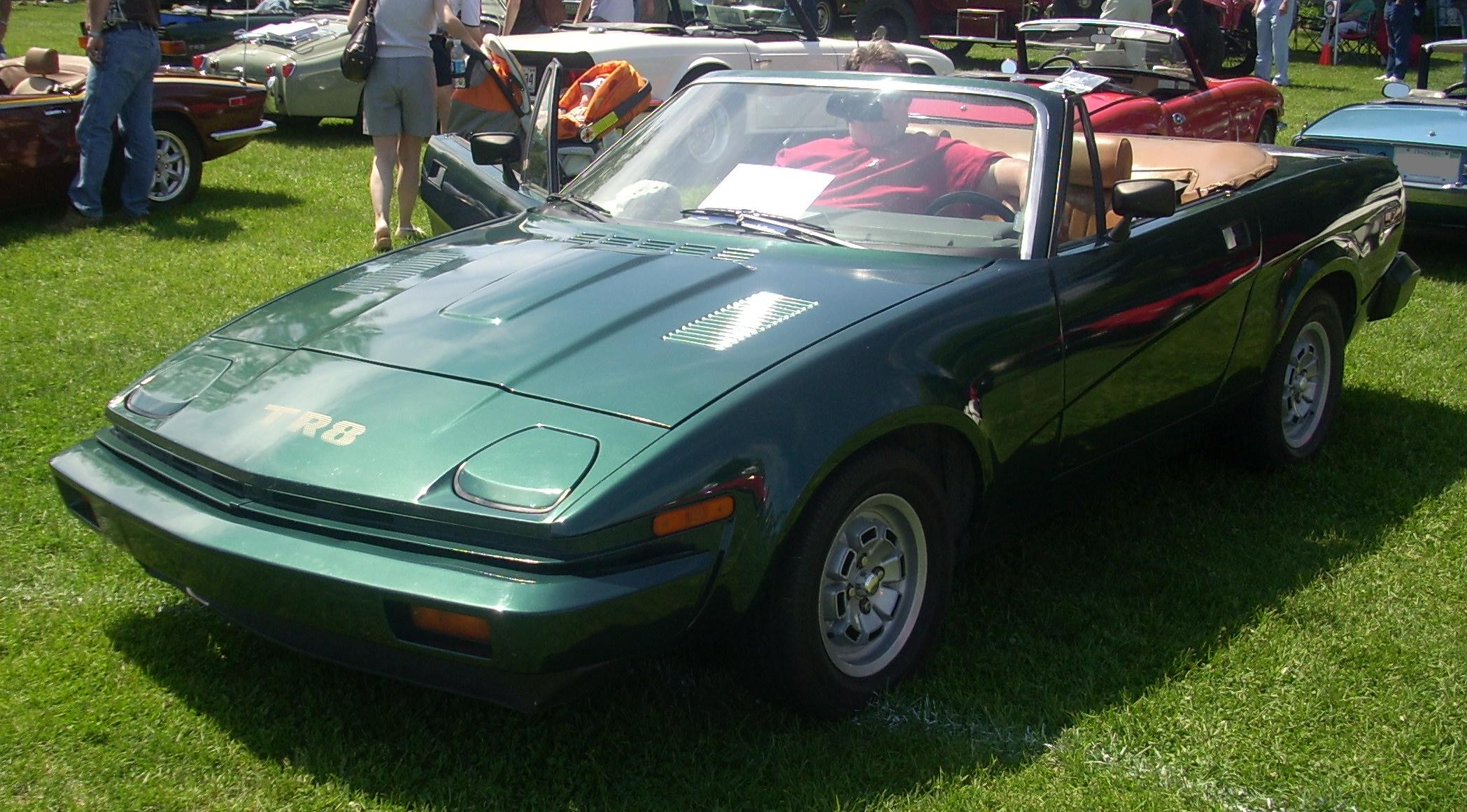 1980 Triumph TR8 photographed in Hudson, Quebec, Canada at the 2008 Hudson British Car Show.